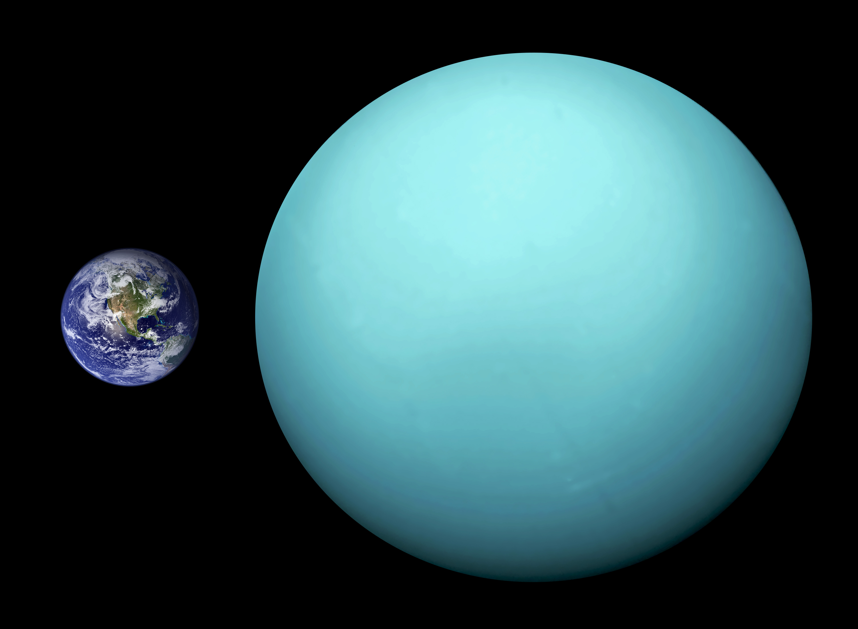 Comparison of the sizes of Uranus and Earth.